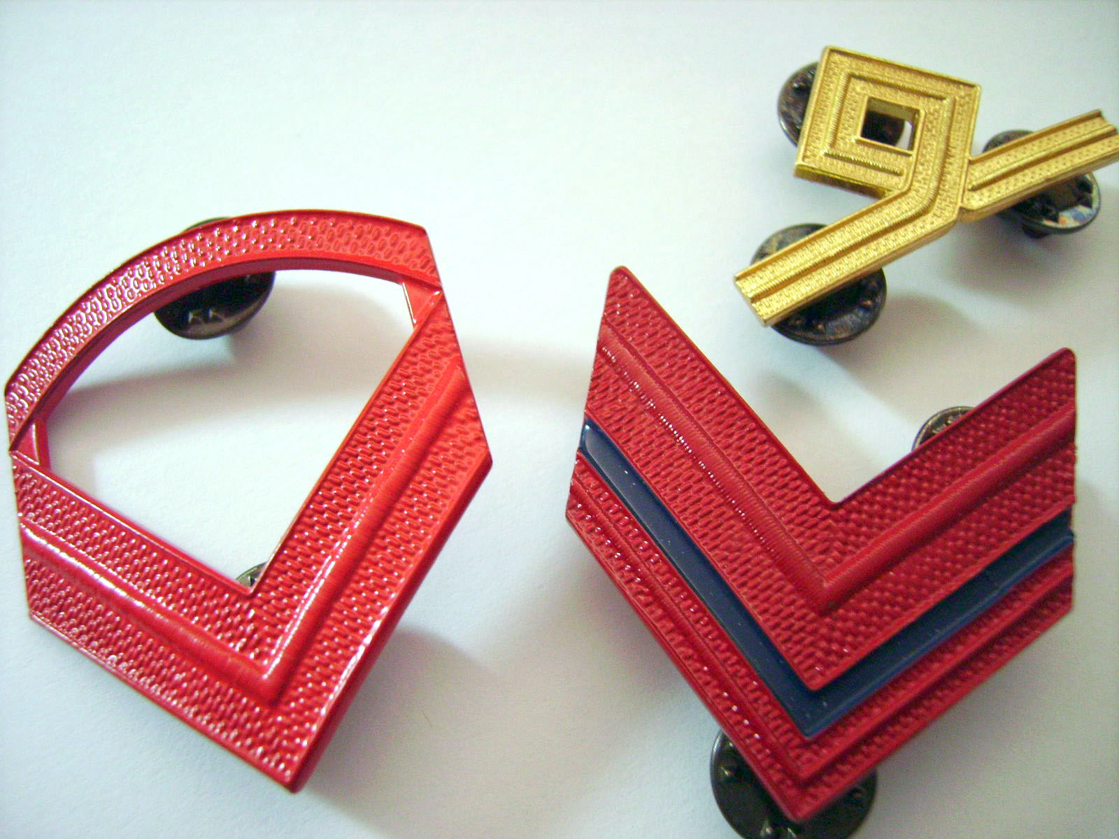 insignia for the shoulder of the Aeronautica Militare